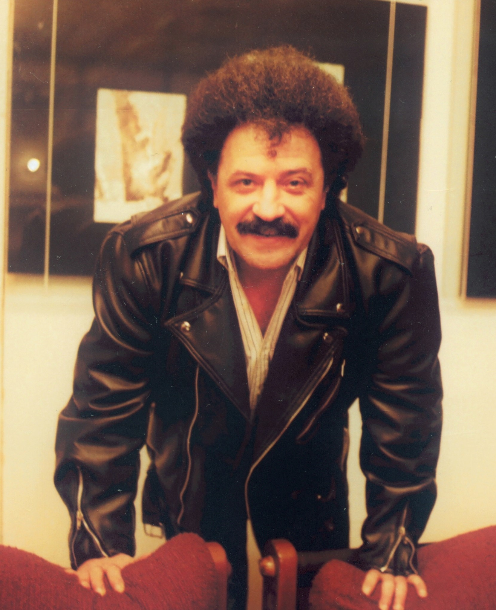 Želimir Altarac Čičak